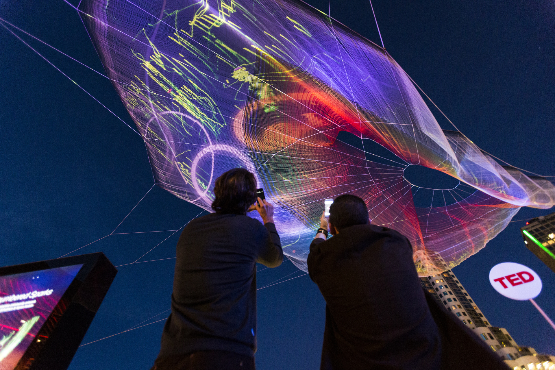 TED2014 - The Next Chapter, March 17-21, 2014, Vancouver Convention Center, Vancouver, Canada. Photo: Bret Hartman